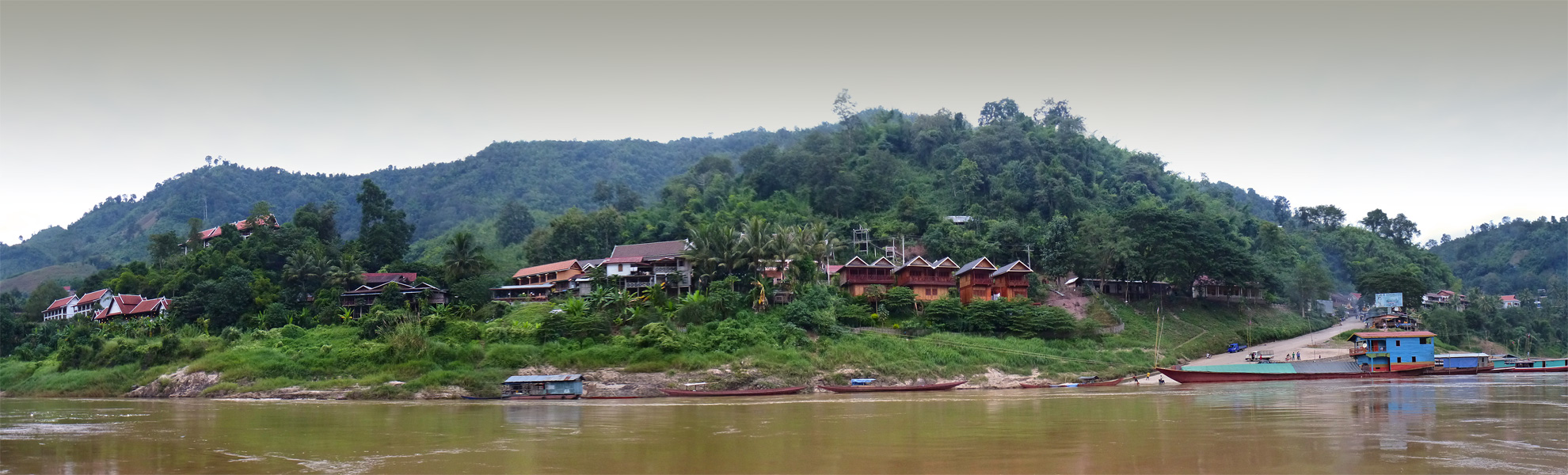 Pakbeng, Oudomxay Province, Laos.